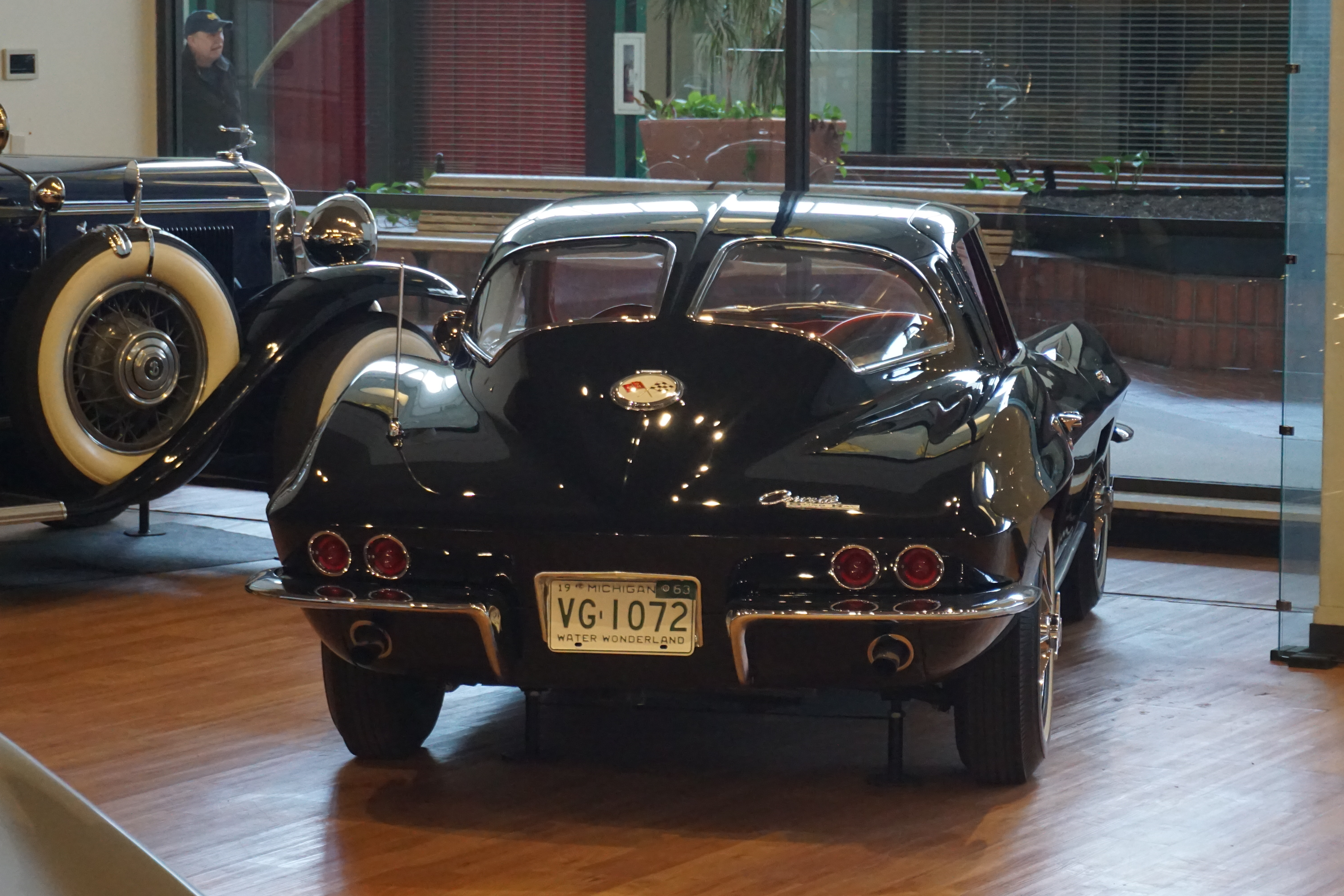 A 1963 Chevrolet Corvette Split Window at the Sloan Museum at Courtland Center in Burton, Michigan (United States).